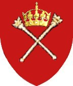 Interrex of Kingdom of Poland author-Maciej Szczepańczyk-user Mathiasrex